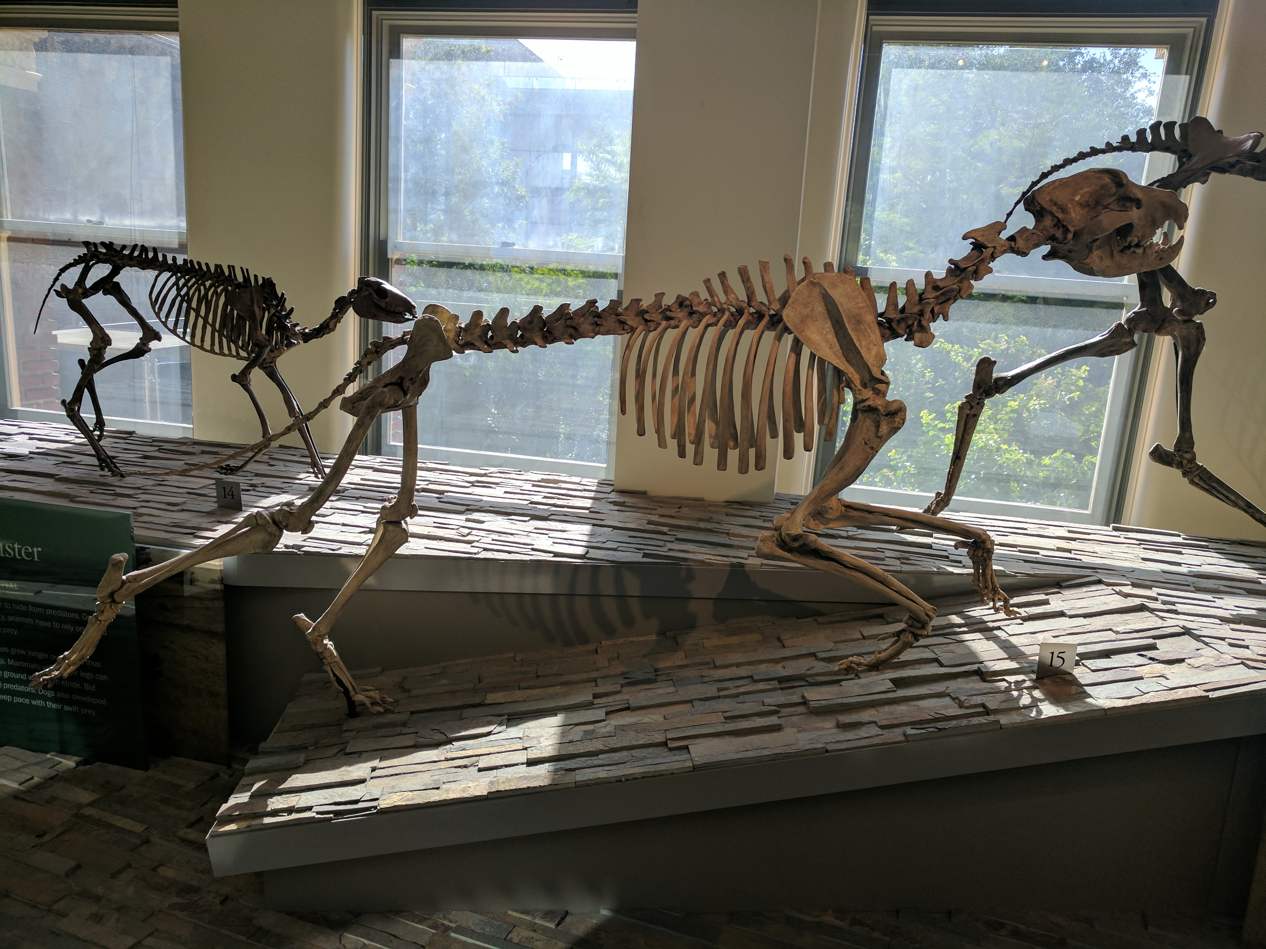 Natural History Museum Los Angeles